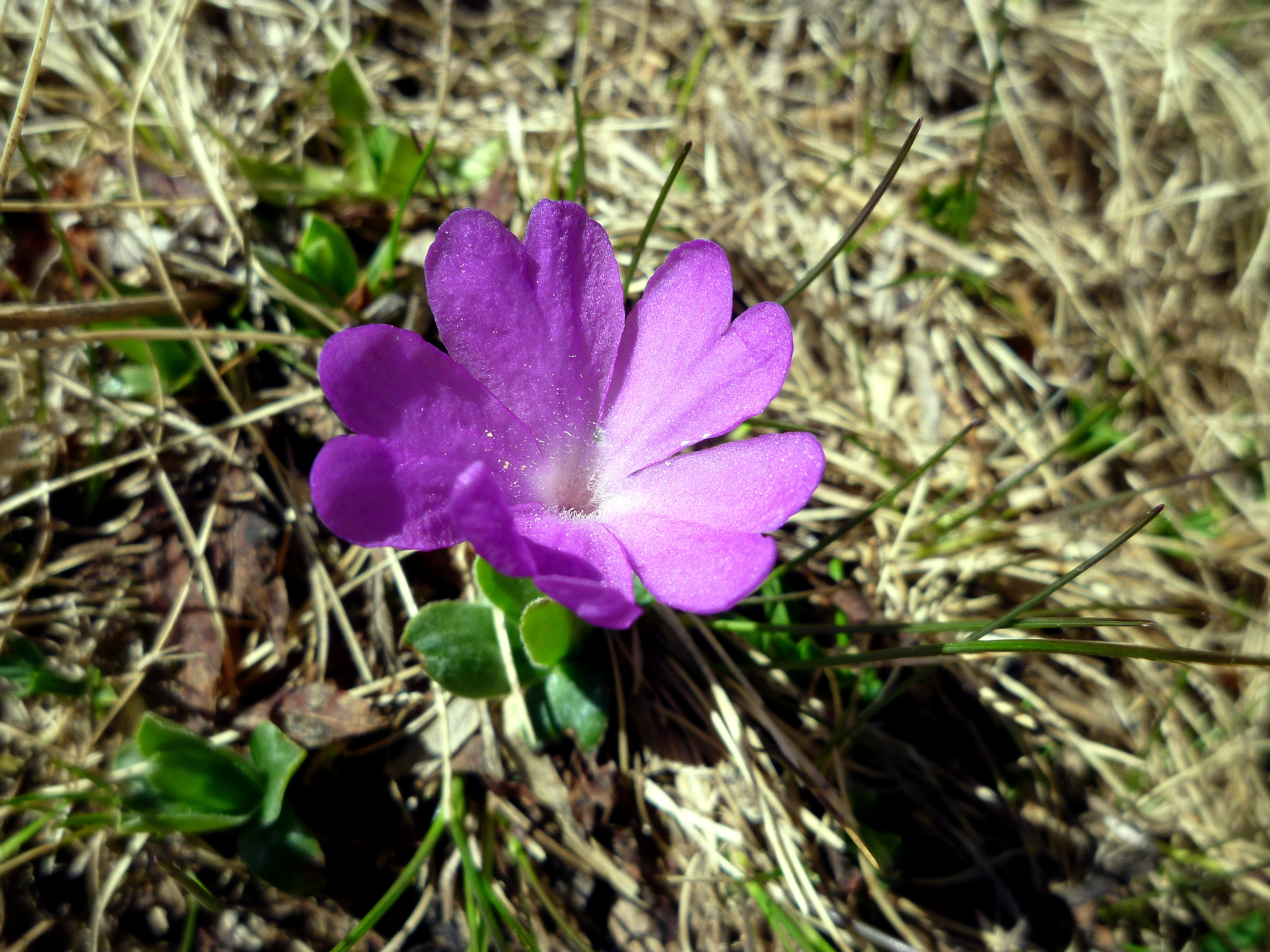 Primula integrifolia. In Cabdella (Pallars Jussà - Catalunya. To 2.420 m altitude